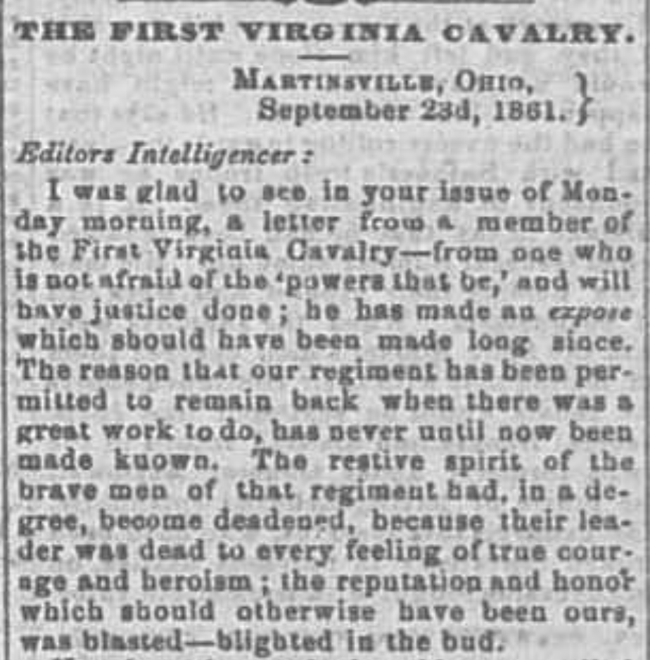 This is the beginning of a letter to the editor of a newspaper commenting on dissatisfaction with the original commander of the First (West) Virginia Cavalry